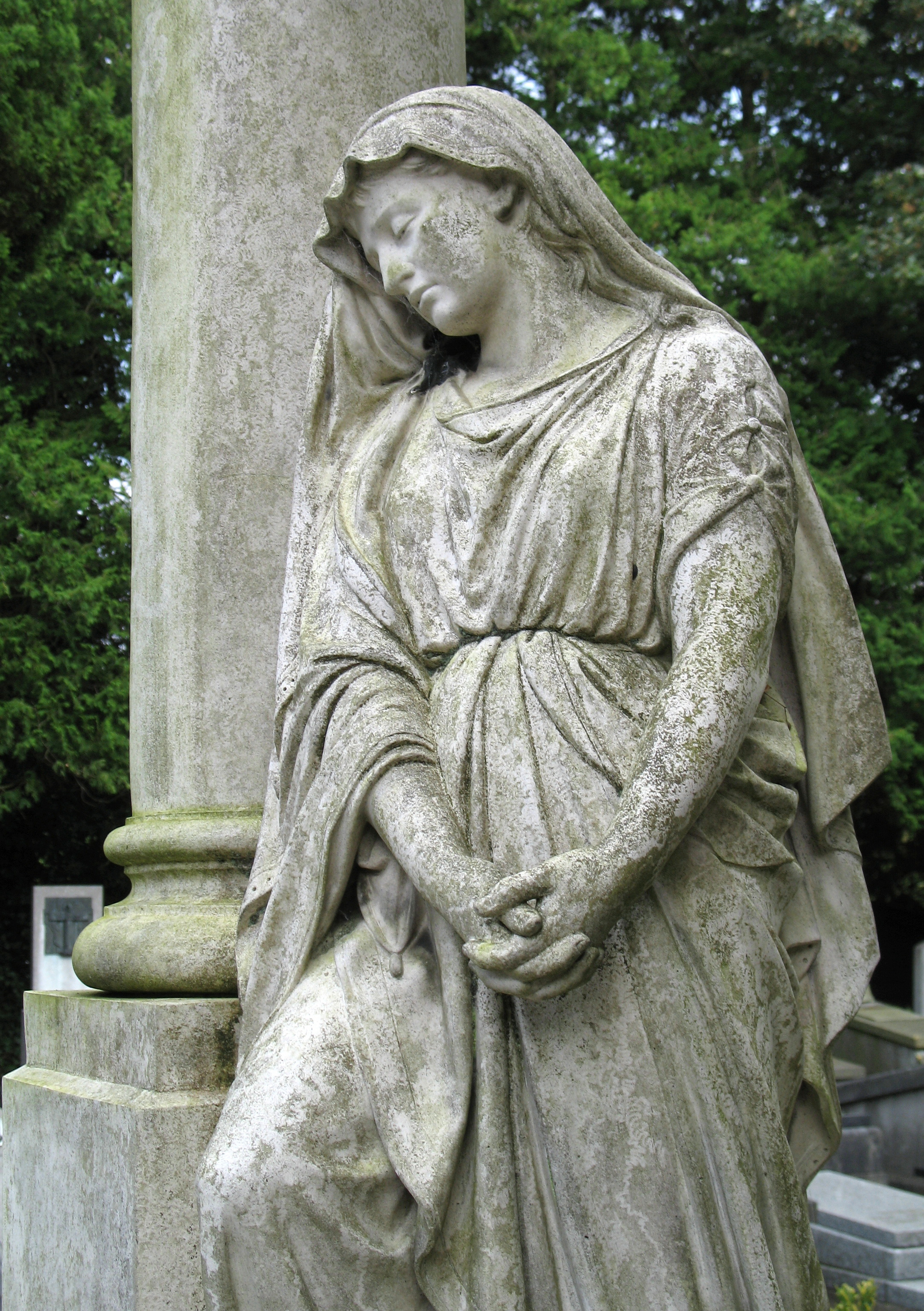 Bruges (Belgium): Steenbrugge Cemetery, detail of a tomb, mourning woman by Heinrich Pohlmann